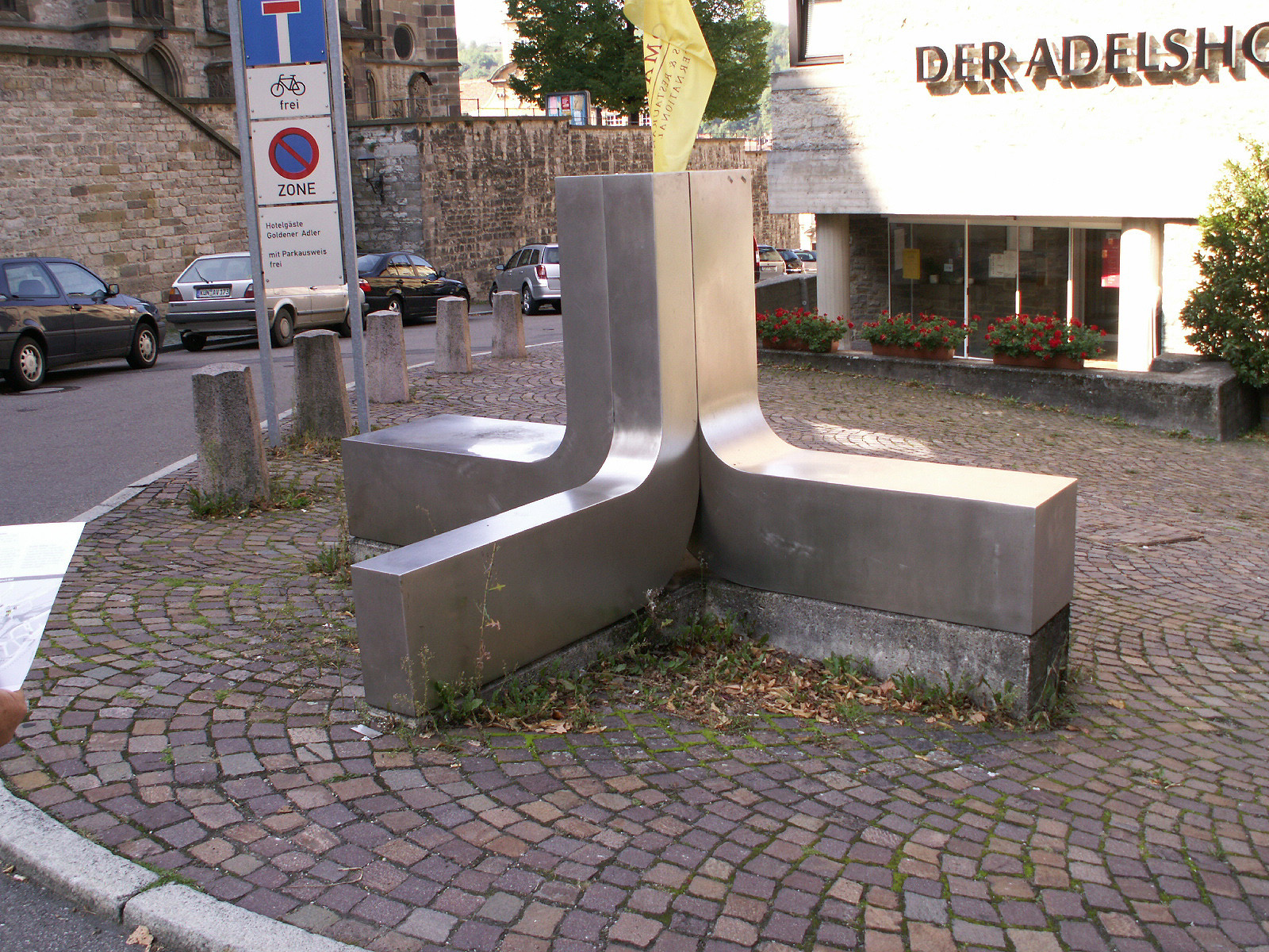 Edgar Gutbub, untitled, undated, - Germany, Baden-Wuerttemberg, Schwaebisch Hall. In the middle, the (horizontal) profiles of the three parts are 20 x 20 cm, 20 x 40 cm and 20 x 60 cm, respectively.